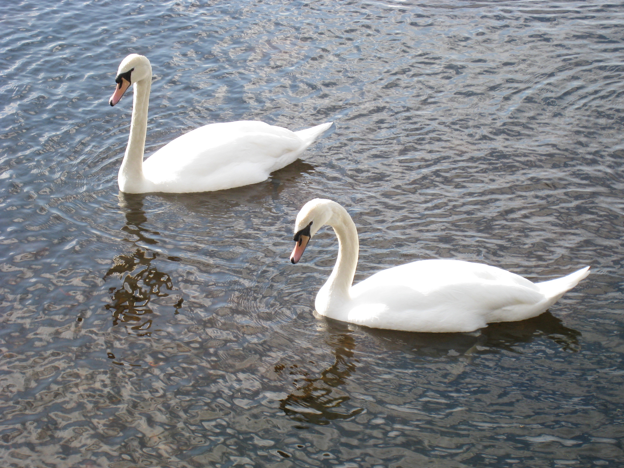 Swans on Lough Leane in County Kerry, Ireland